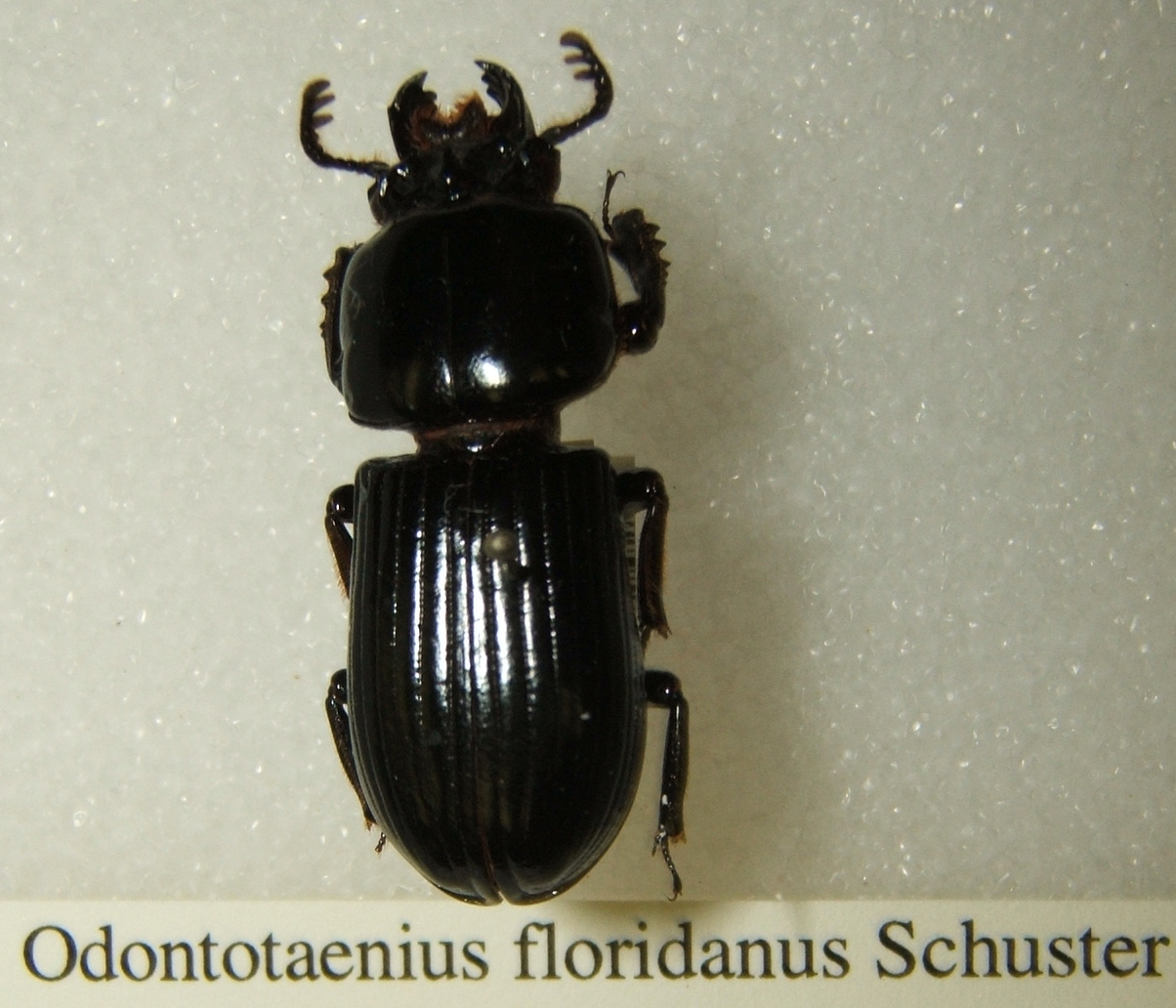 Odontotaenius floridanus adult taken by Shawn Hanrahan at the Texas A&M University Insect Collection in College Station, Texas.